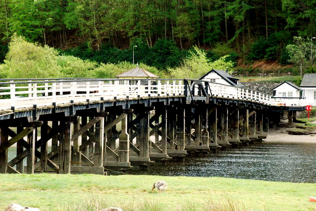 Pont toll Penmaenpool Toll bridge